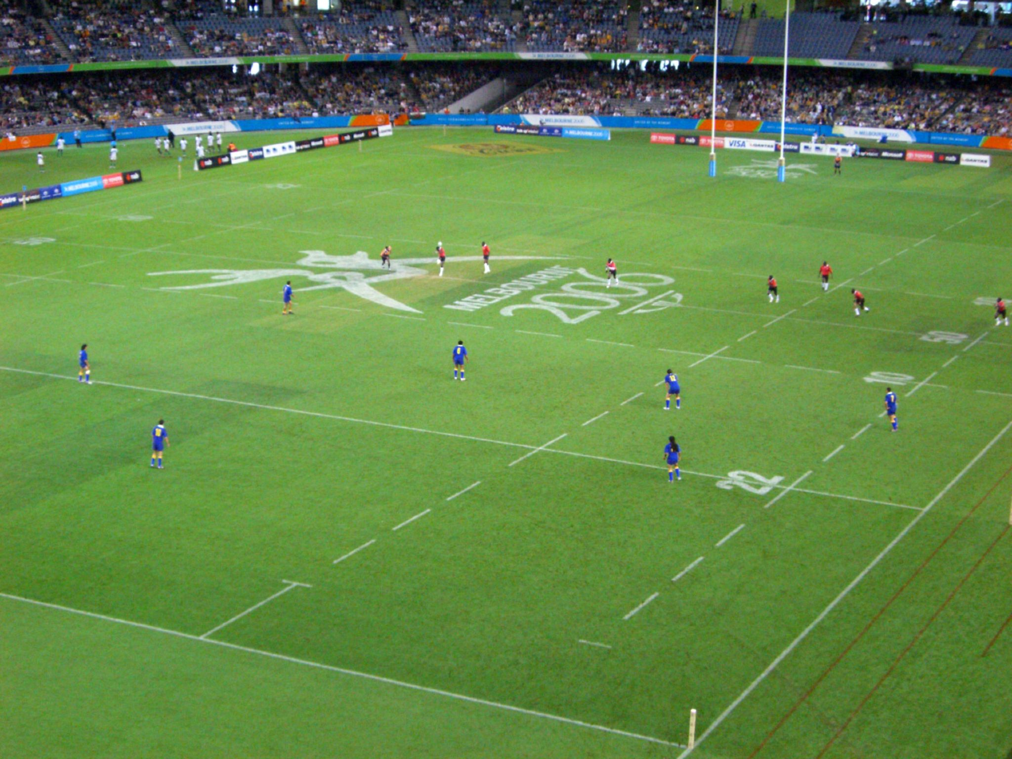 A rugby sevens match being played during the 2006 Commonwealth Games. The match was played in Melbourne's Telstra Dome.